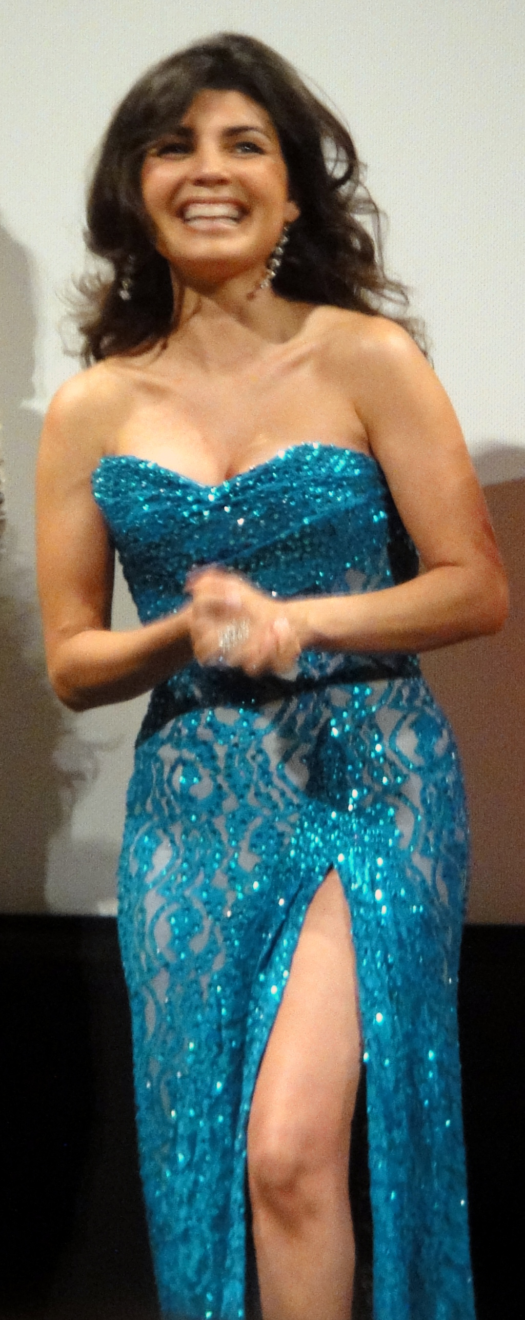 American actress Ara Celi at Austin Film Society with cast of Machete